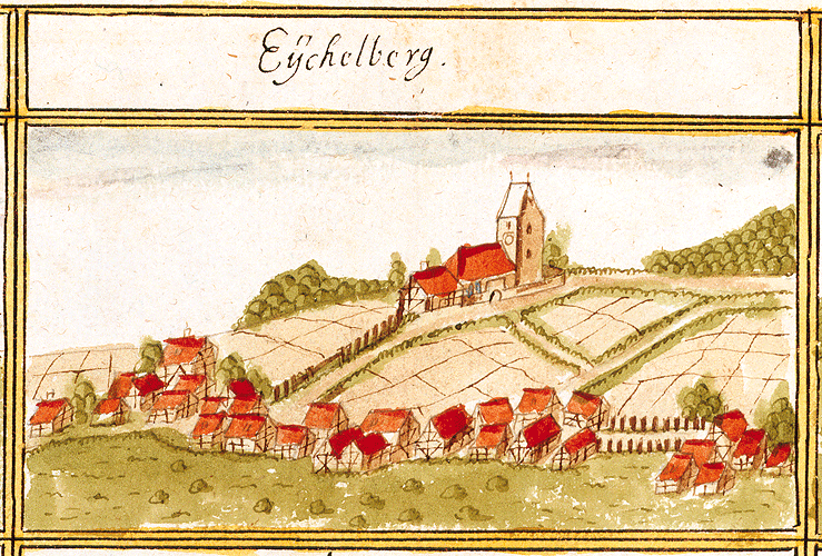 View of Aichelberg, Aichwald, from the forest register books created by Andreas Kieser